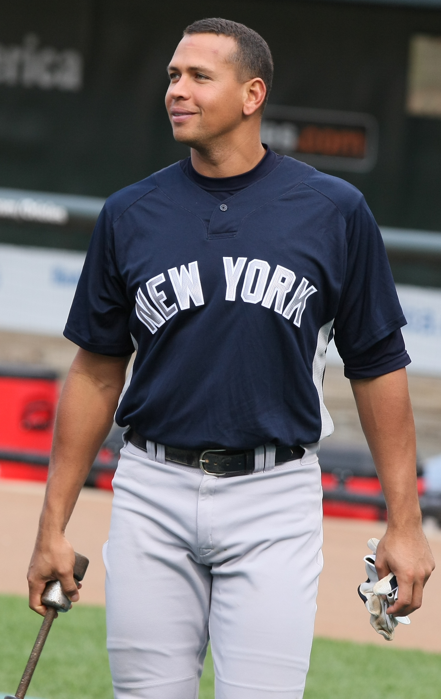 Alex Rodriguez, New York Yankees player.